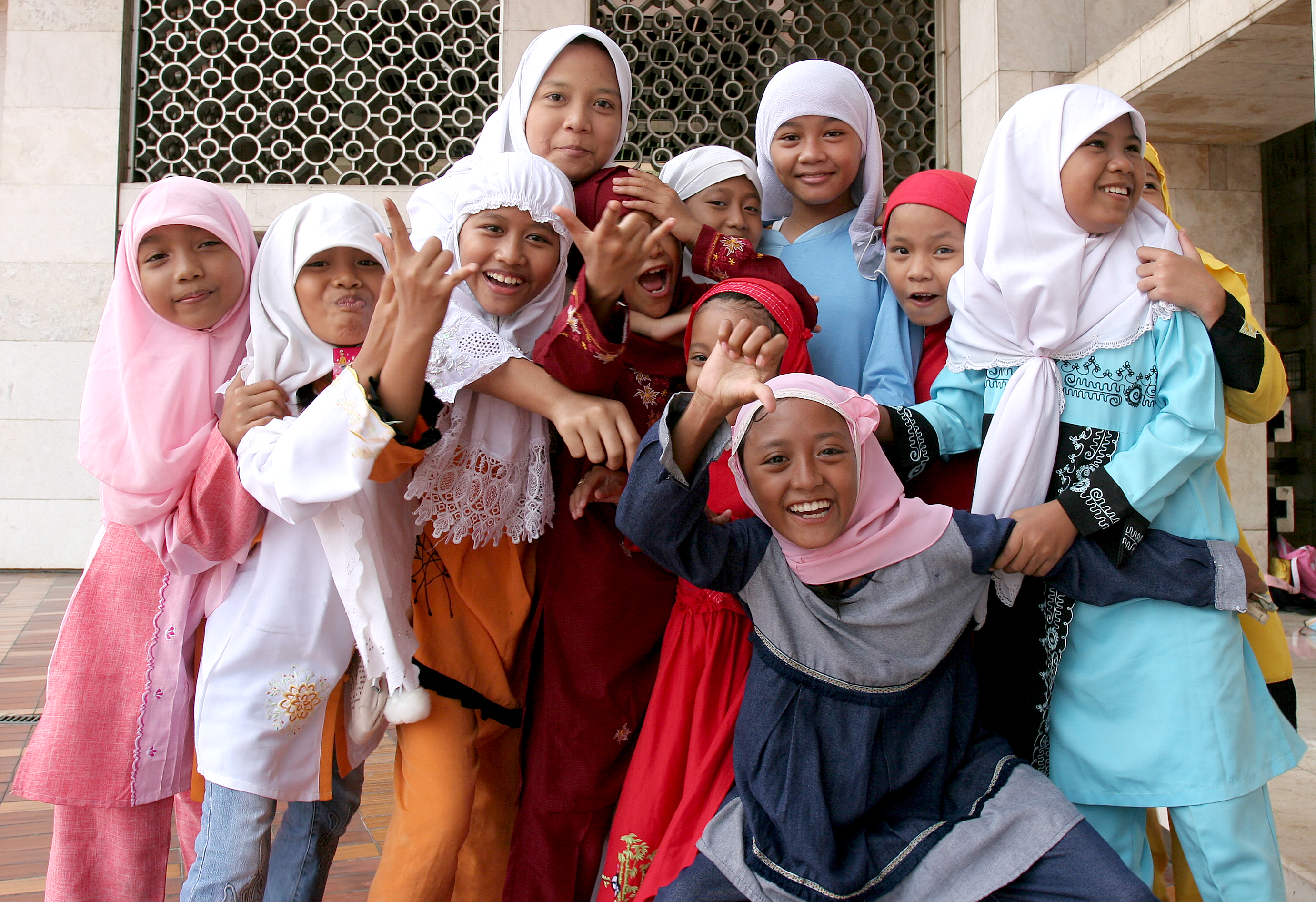 Muslim girls at Istiqlal Mosque in Jakarta posing in front of the camera.